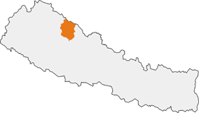 Shey Phoksundo National Park (Nepal)